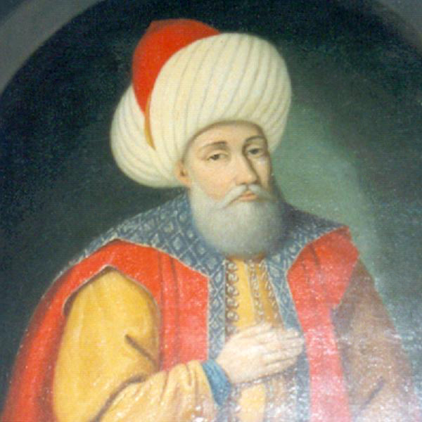 Portrait of Orhan Gazi, Sultan of the Ottoman Empire (1359-1389). The portrait is displayed along with other portraits of Ottoman sultans on the walls of the mirror hall of the Manyal Palace Museum.